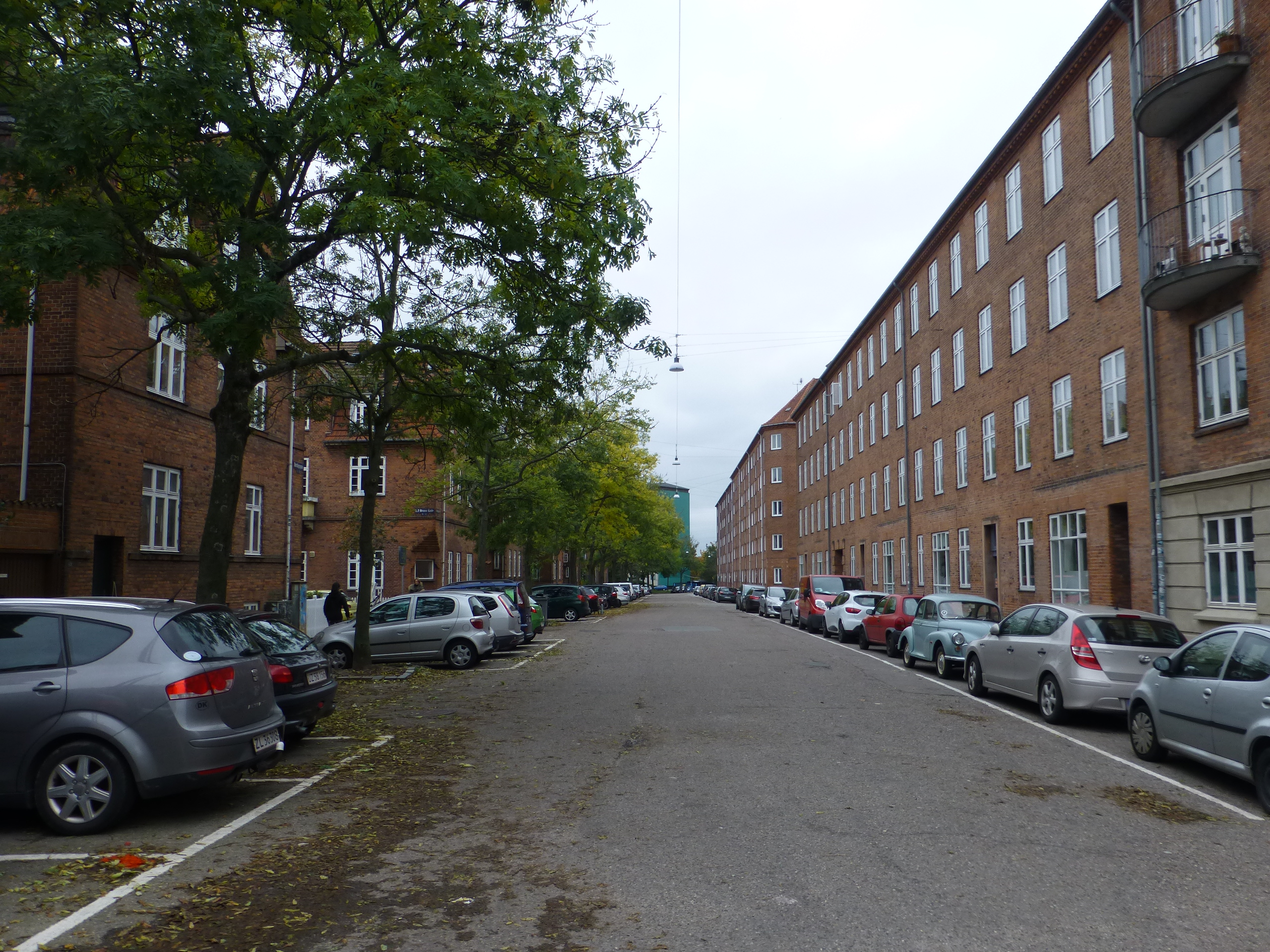 The street Borthigsgade in Østerbro in Copenhagen.